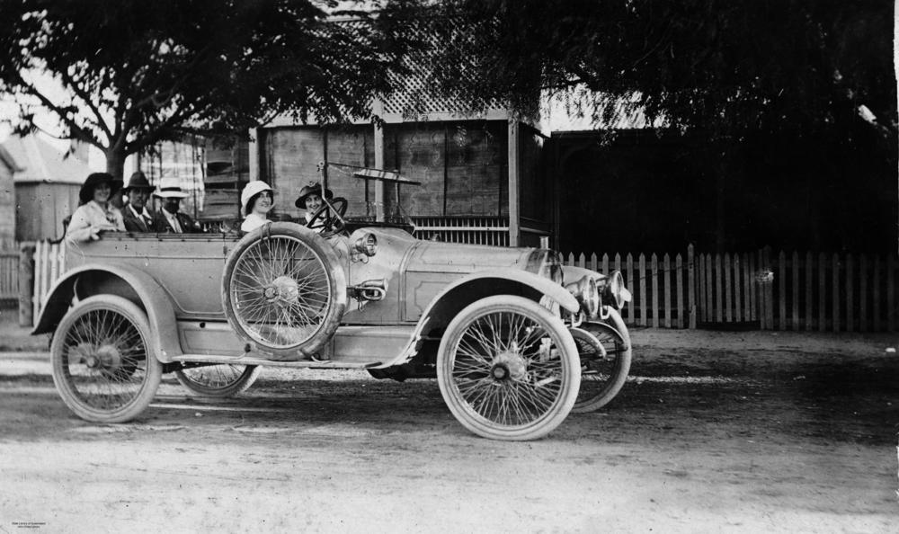 Group of men and women travelling in a 1913 Napier motor vehicle Group of men and women travelling in a four cylinder, 1913 model Napier tourer with the hood down. Made in Great Britain. (Description supplied with photograph).